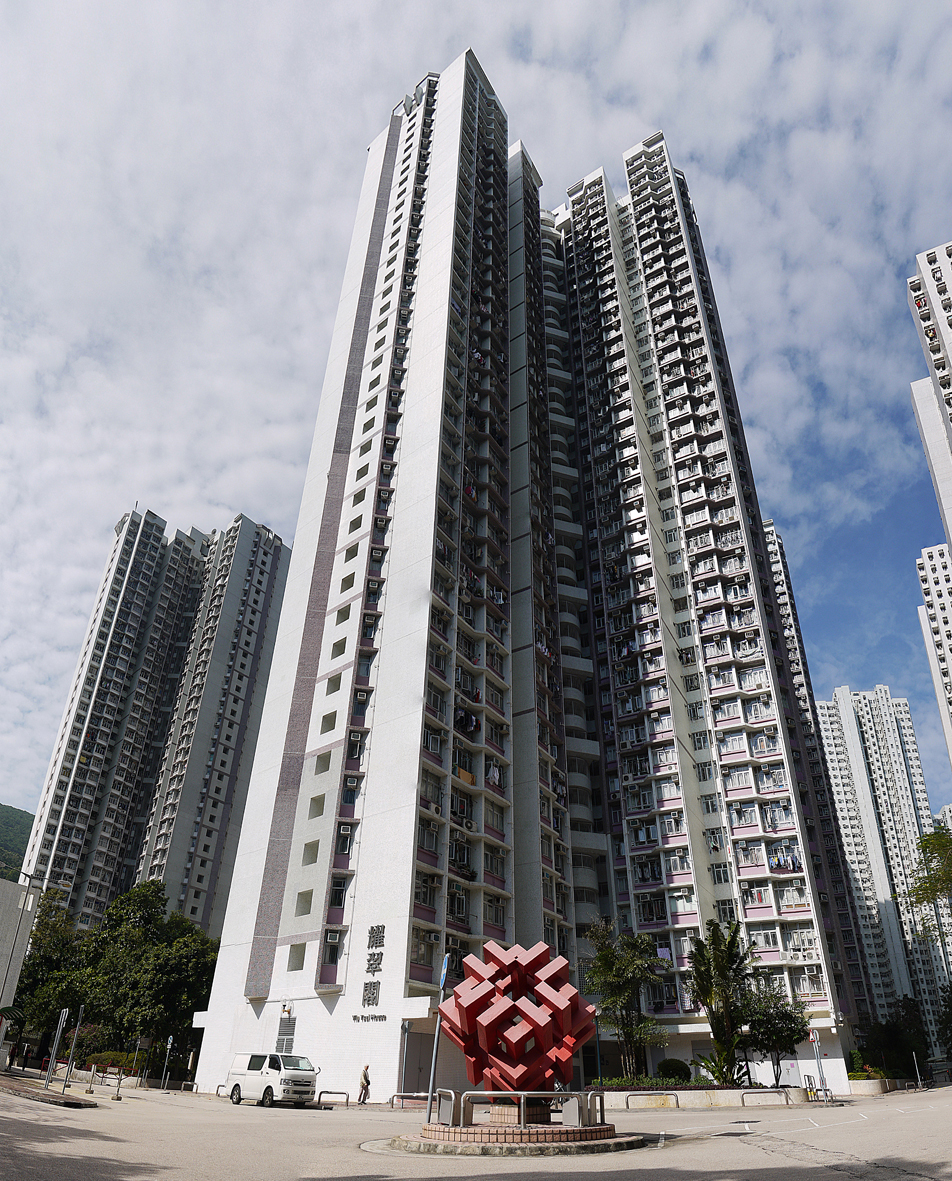 Kai Tsui Court 1s